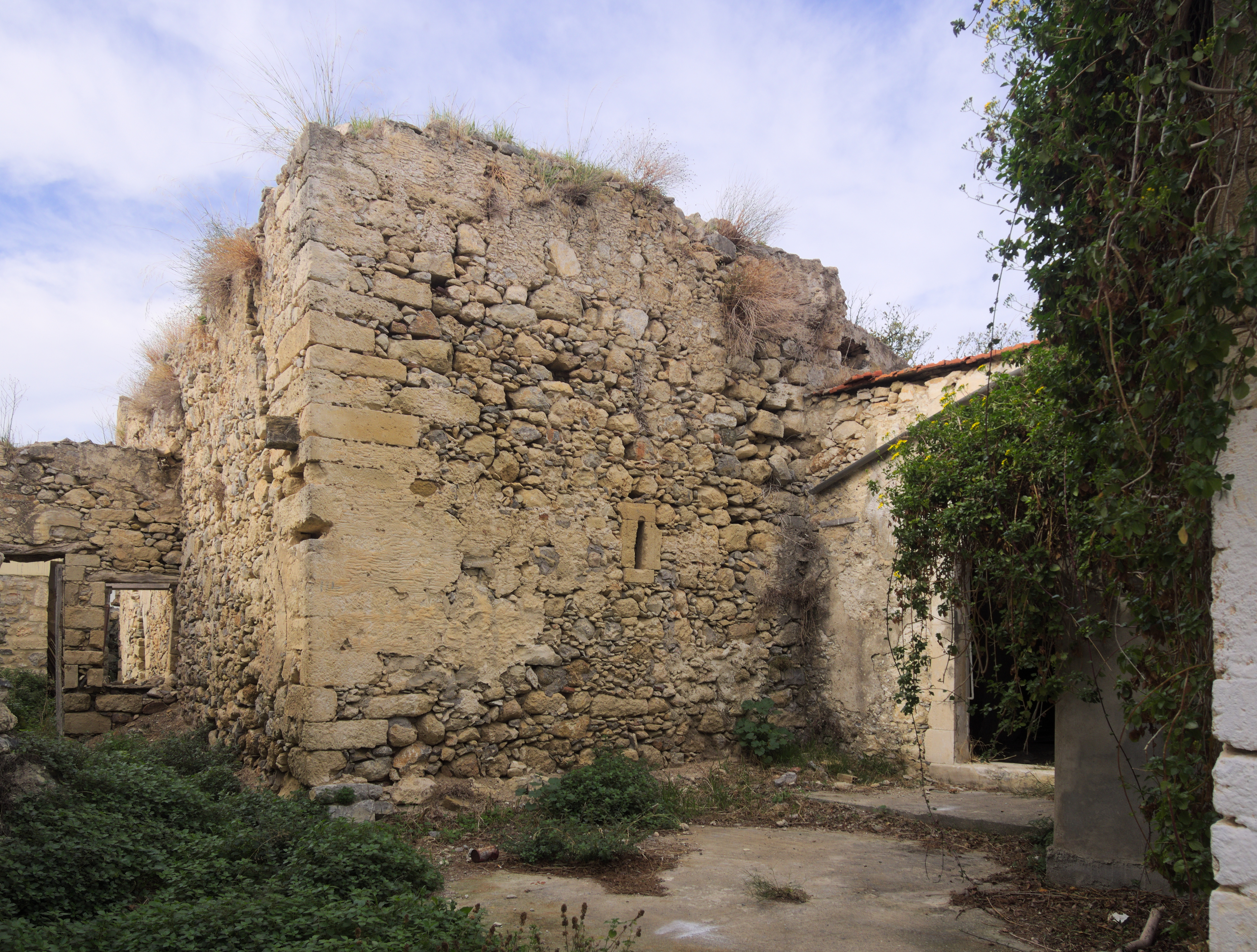 The Tower of Foskolos, a fortified house in Kainourio Chorio. Only the ground floor has been preserved.